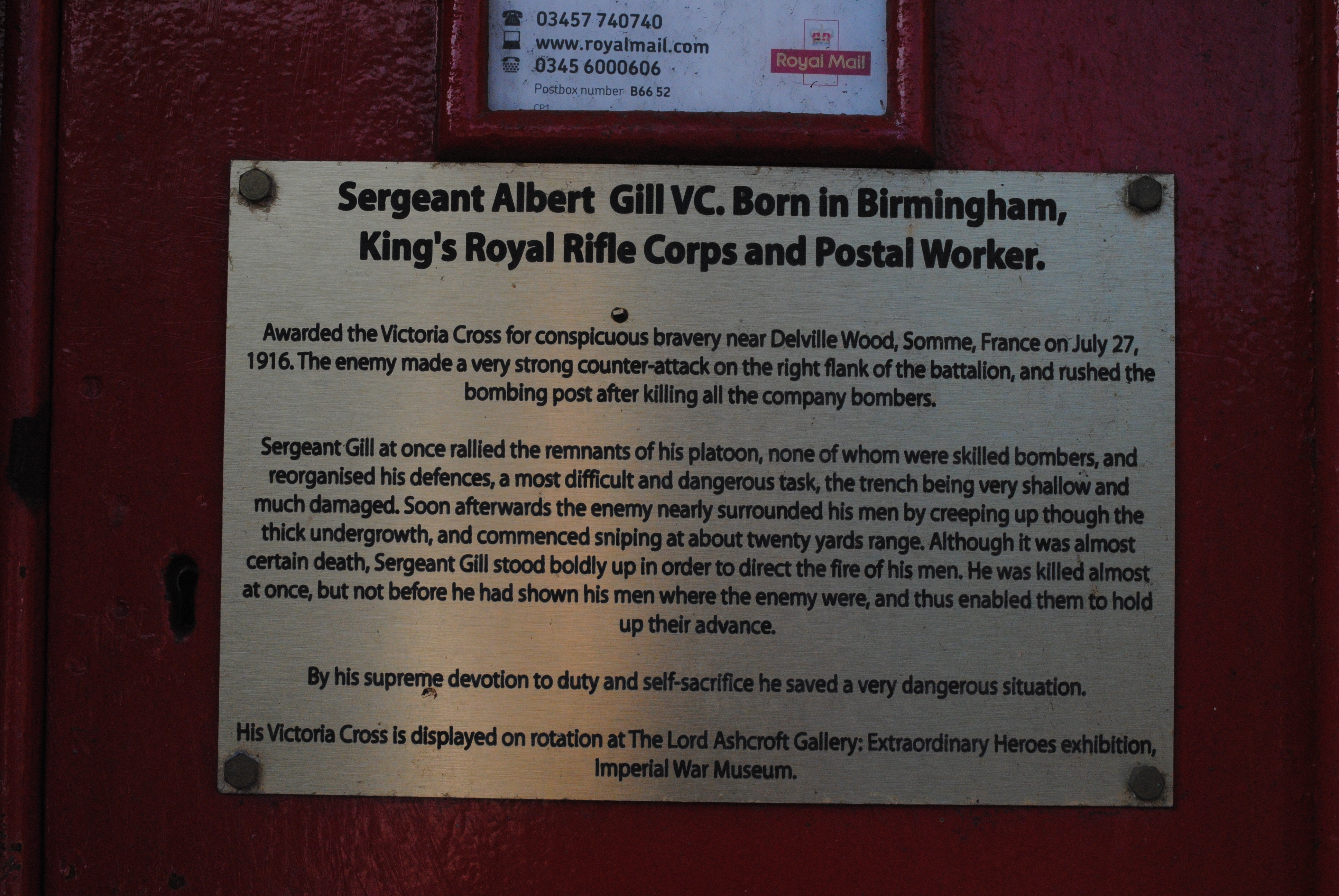 Victorian postbox on Dudley Road, Birmingham, England, with plaque attached commemorating Sergeant Albert Gill VC.